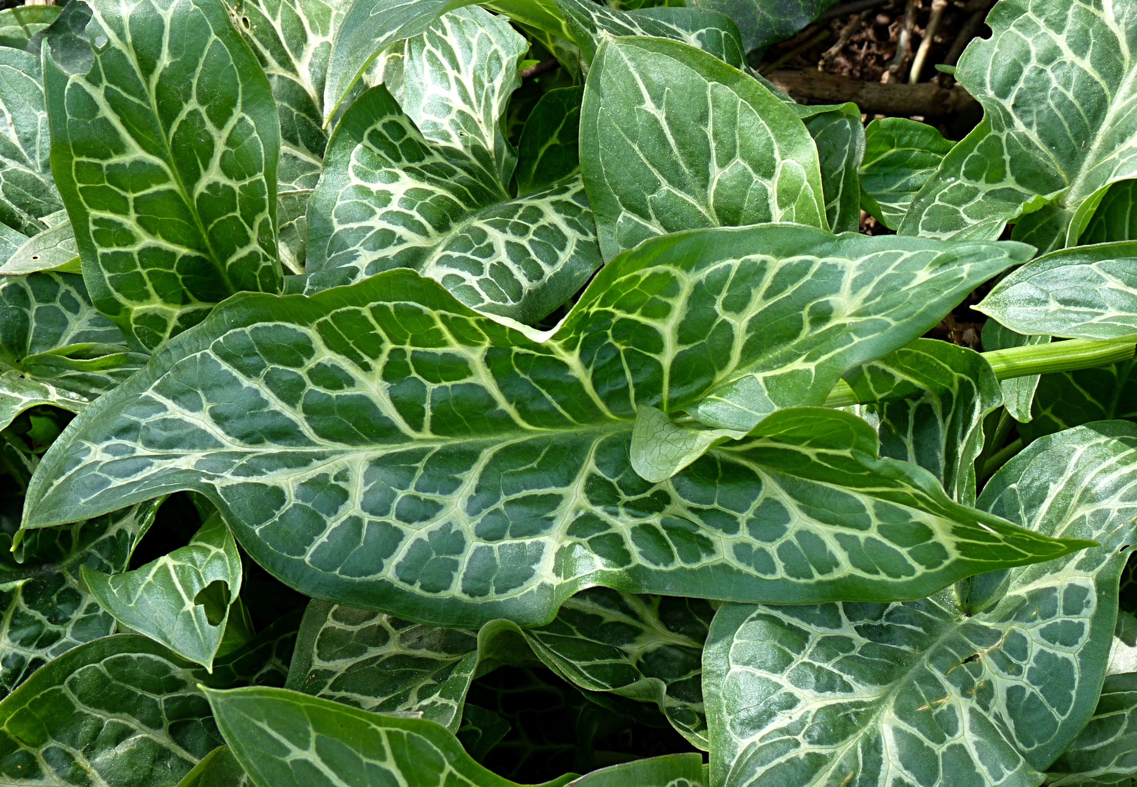 Arum italicum leaves, picture taken in Belgium.